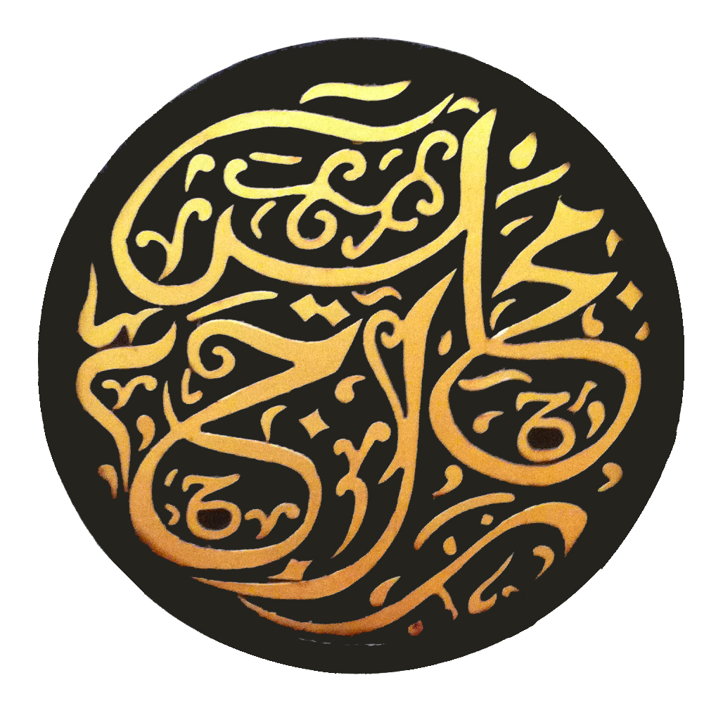 The word 'Conference of Rulers" is written in the calligraphic art of 'diwani' which can be seen at the main gate of the office of Keeper of the Rulers' Seal.